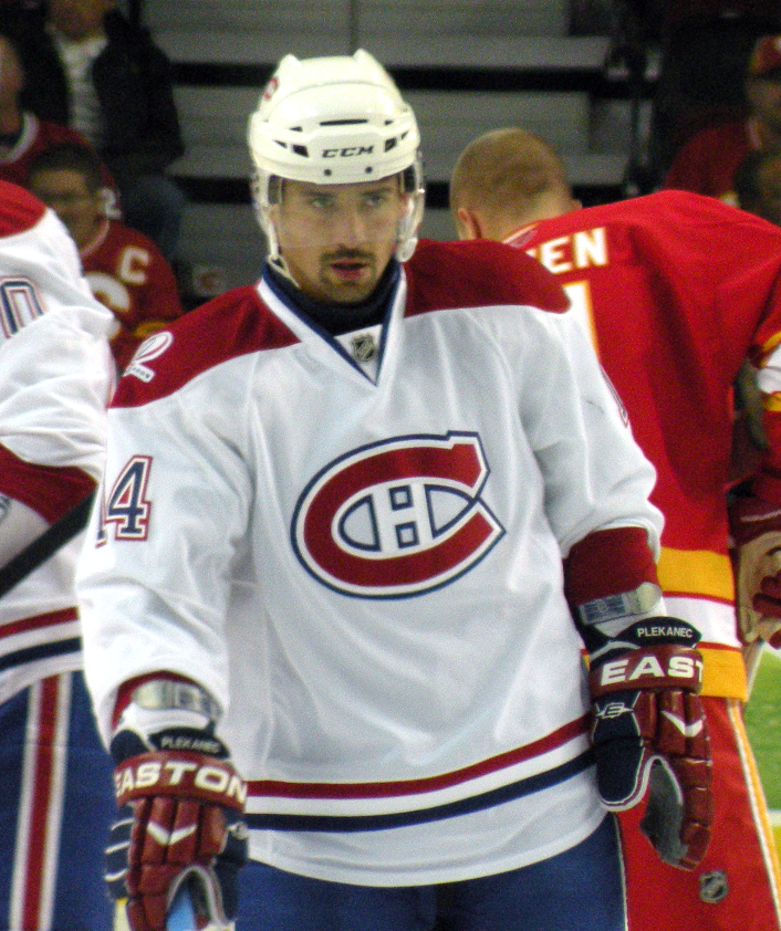 Montreal Canadiens forward Tomas Plekanec during warm-up prior to a National Hockey League game against the Calgary Flames, in Calgary.